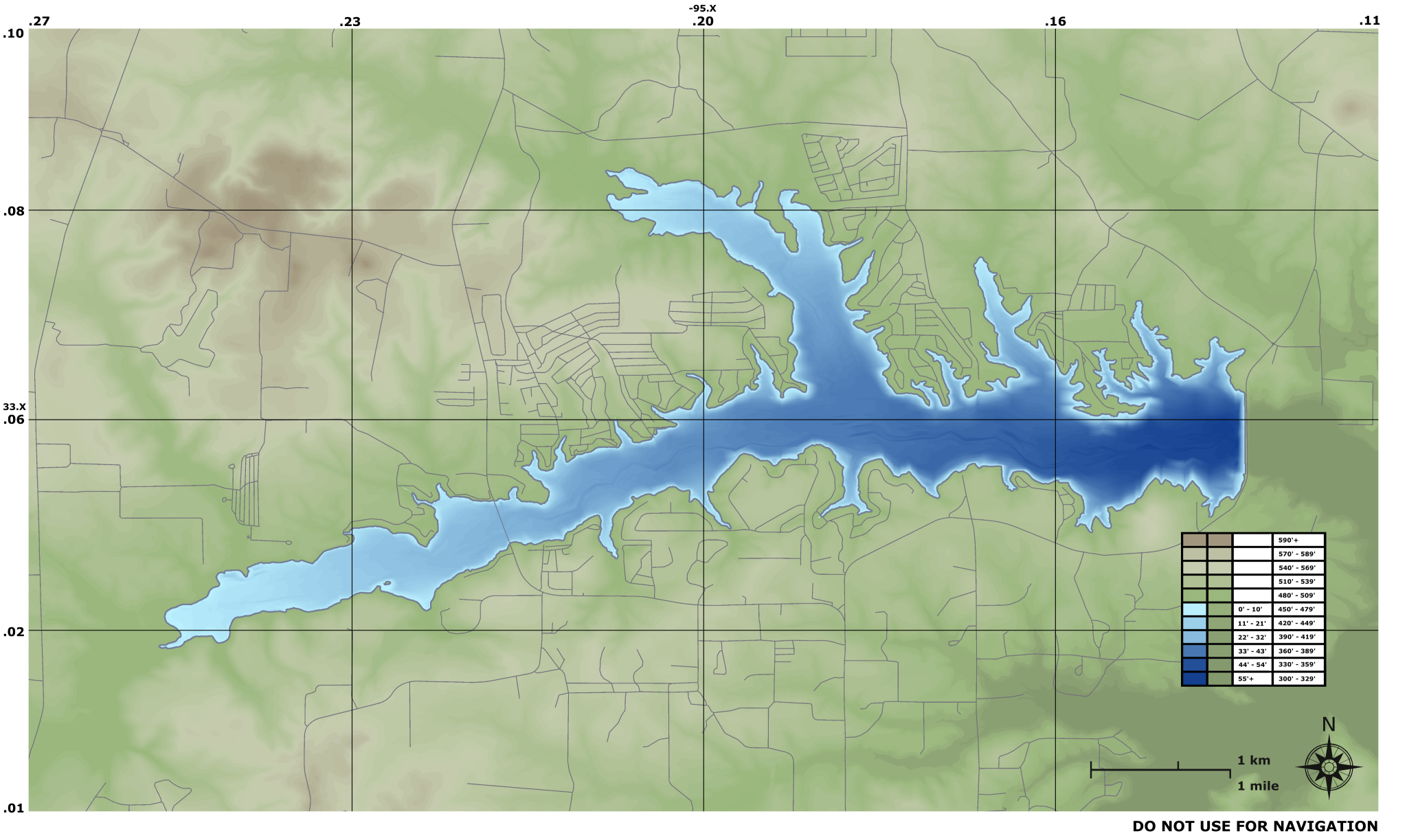 This topographical map was generated using publicly available using a custom tool that I made and shaded based solely on elevation (not hillshaded). Although this map is fairly accurate, it does not include all roads that exist as of 2019. It also does not show ponds, small lakes, and the bathymetric map of Lake Bob Sandlin, which should be shown on the right side of the map beneath the dam. The latitude and longitude might be slightly off, and thus this map should not be used for navigation purposes. If you need this map released under a different license on another site or need a higher resolution, please get in touch with me and I can arrange that (the computing power required to create the map is more than my existing machine so I didn't put in the effort to generate it at this time).